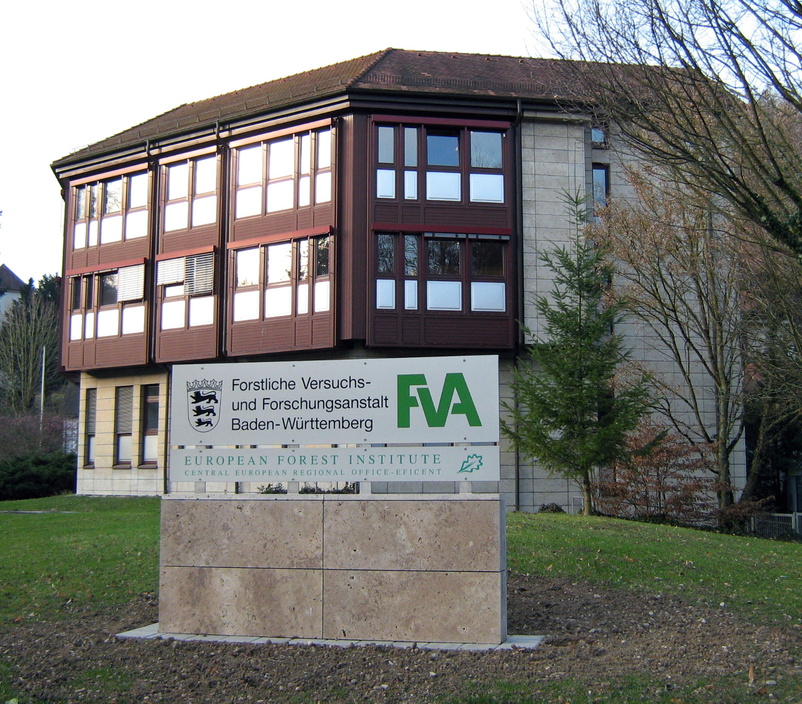 The Main Building of the Forest Research Institute of Baden-Württemberg (FVA), Wonnhaldestraße. 4, 79100 Freiburg i. Br., Germany